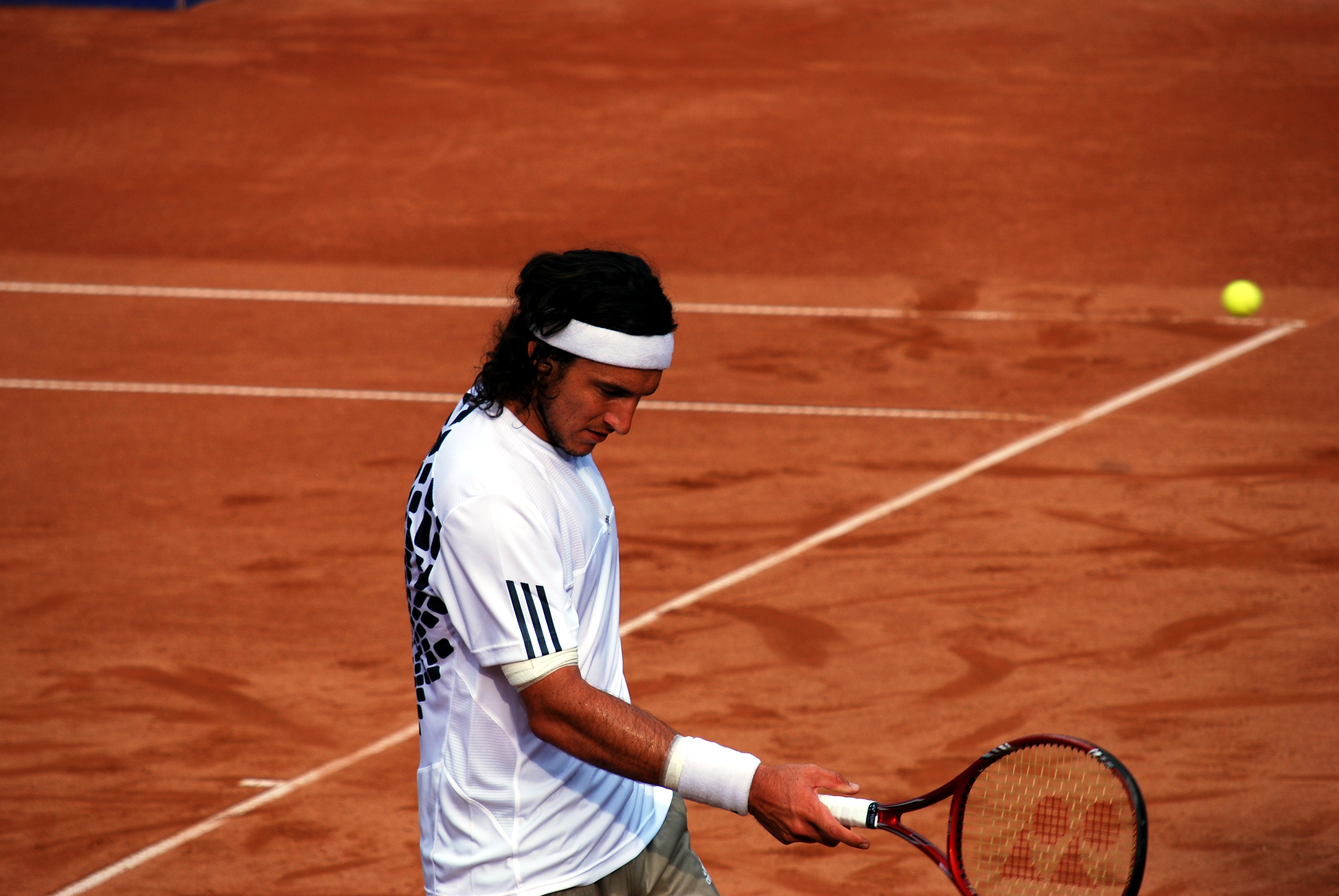 Argentinan tennis player Juan Mónaco playing in the semifinals of BCR Open Romania 2009 in Bucharest